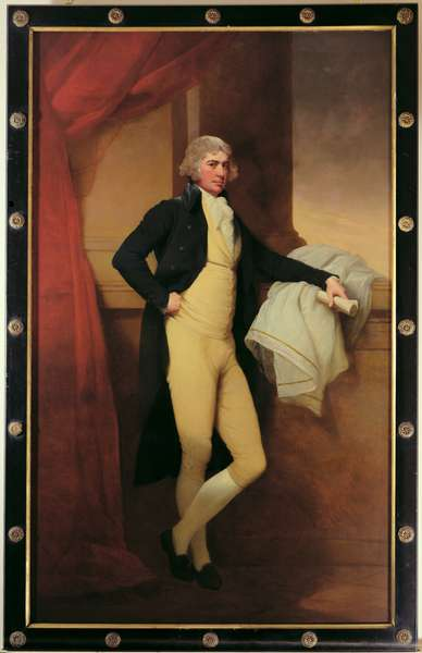 Samuel Oldknow (1756 - 1828) was an English cotton manufacturer. He was born in Anderton, Chorley, Lancashire and served an apprenticeship in his uncle’s draper’s shop at Nottingham. He then moved to Stockport where he established a mill for the manufacture of muslin. In 1793 he opened another mill at Mellor and this was at the same time that he was actively promoting construction of the Peak Forest Canal and the Peak Forest Tramway.